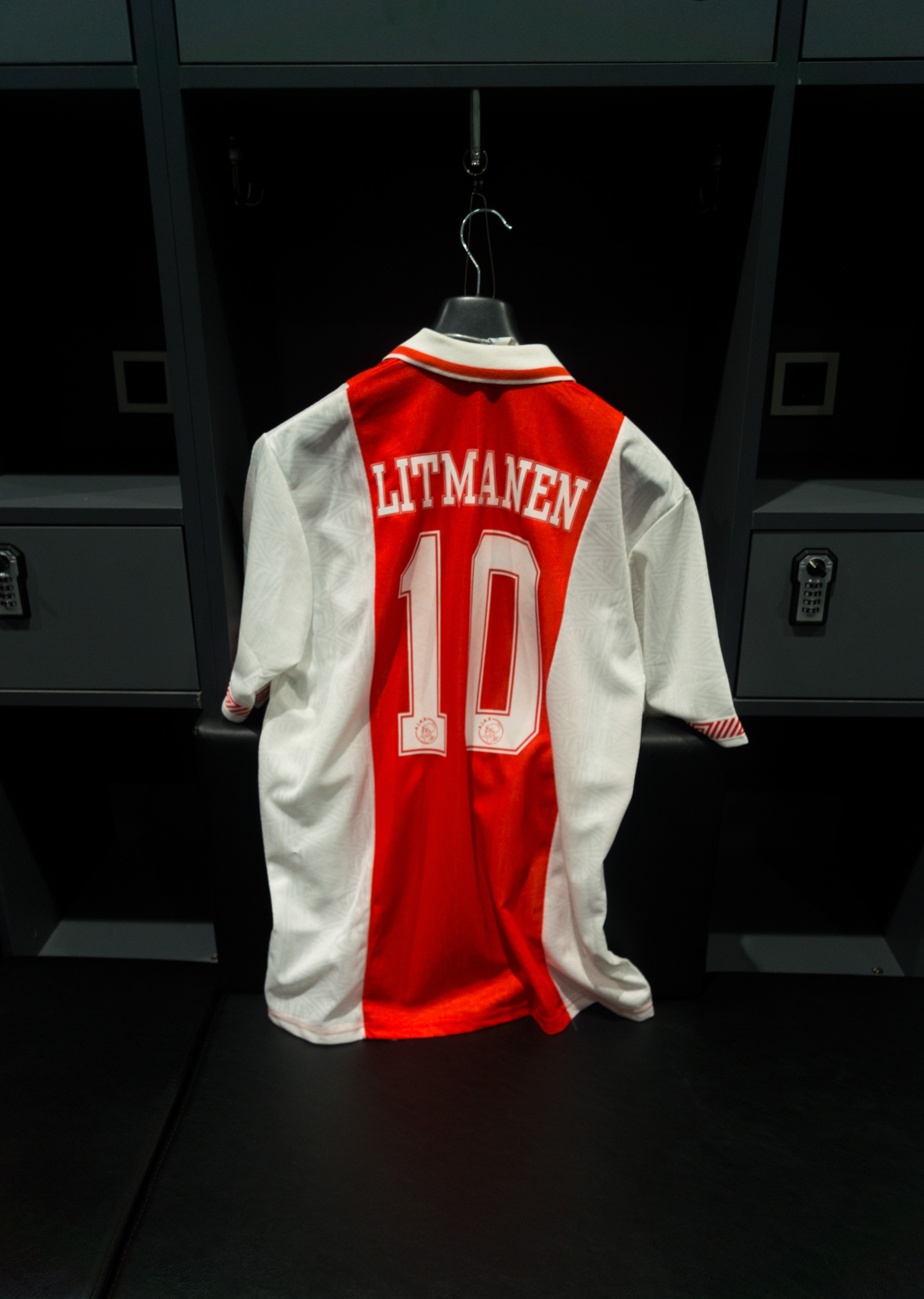 Jari Litmanen memorable shirt in Vodafone Park where home of Besiktas JK